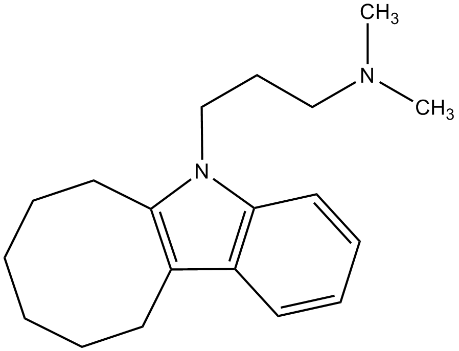 Structure of iprindole